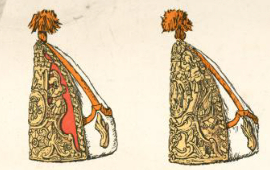 Prussian grenadier cap (Grenadiermütze) models of the 18th century